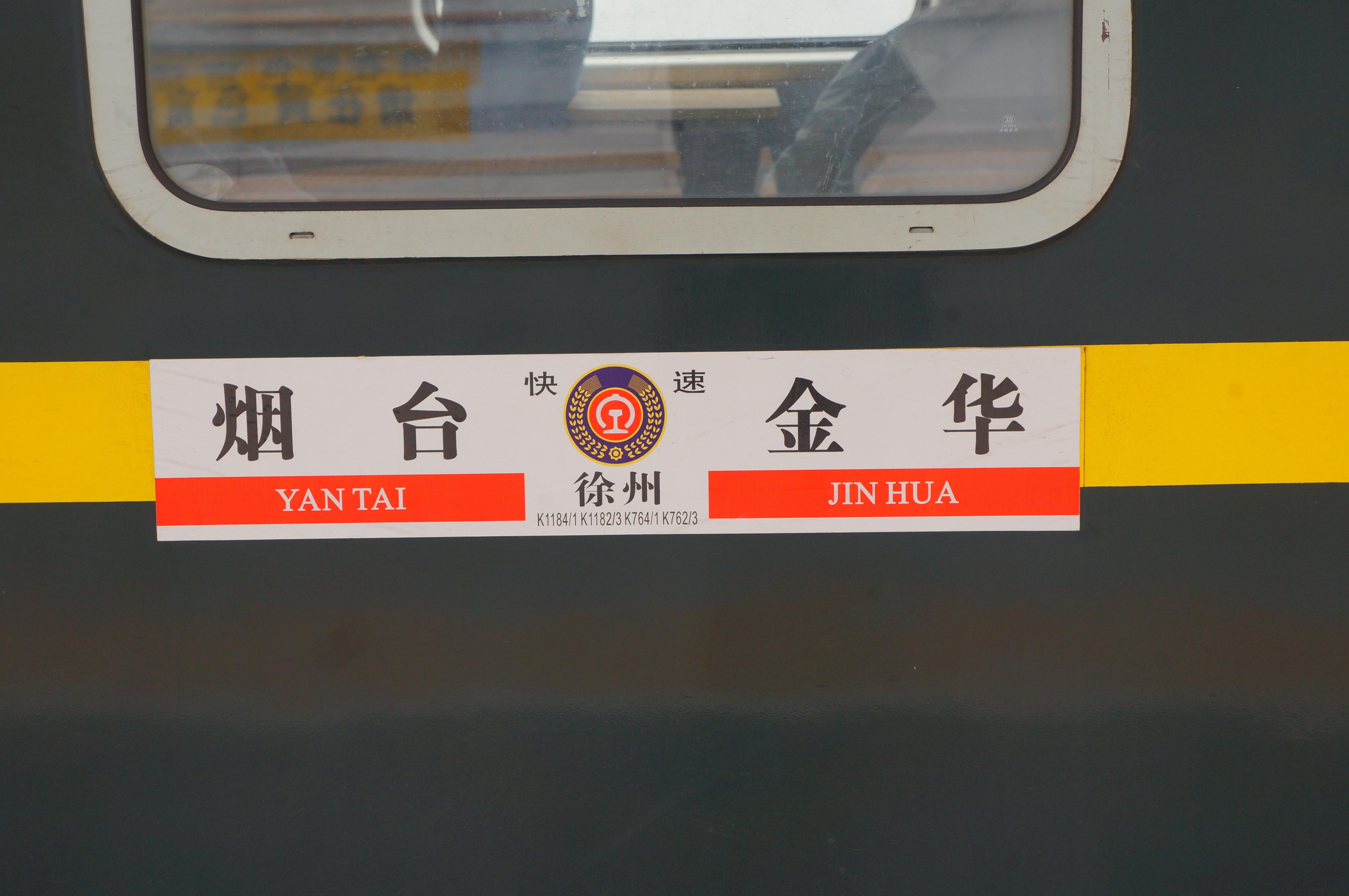 The outset and the destination stations are not Xuzhou-Jinhua anymore.